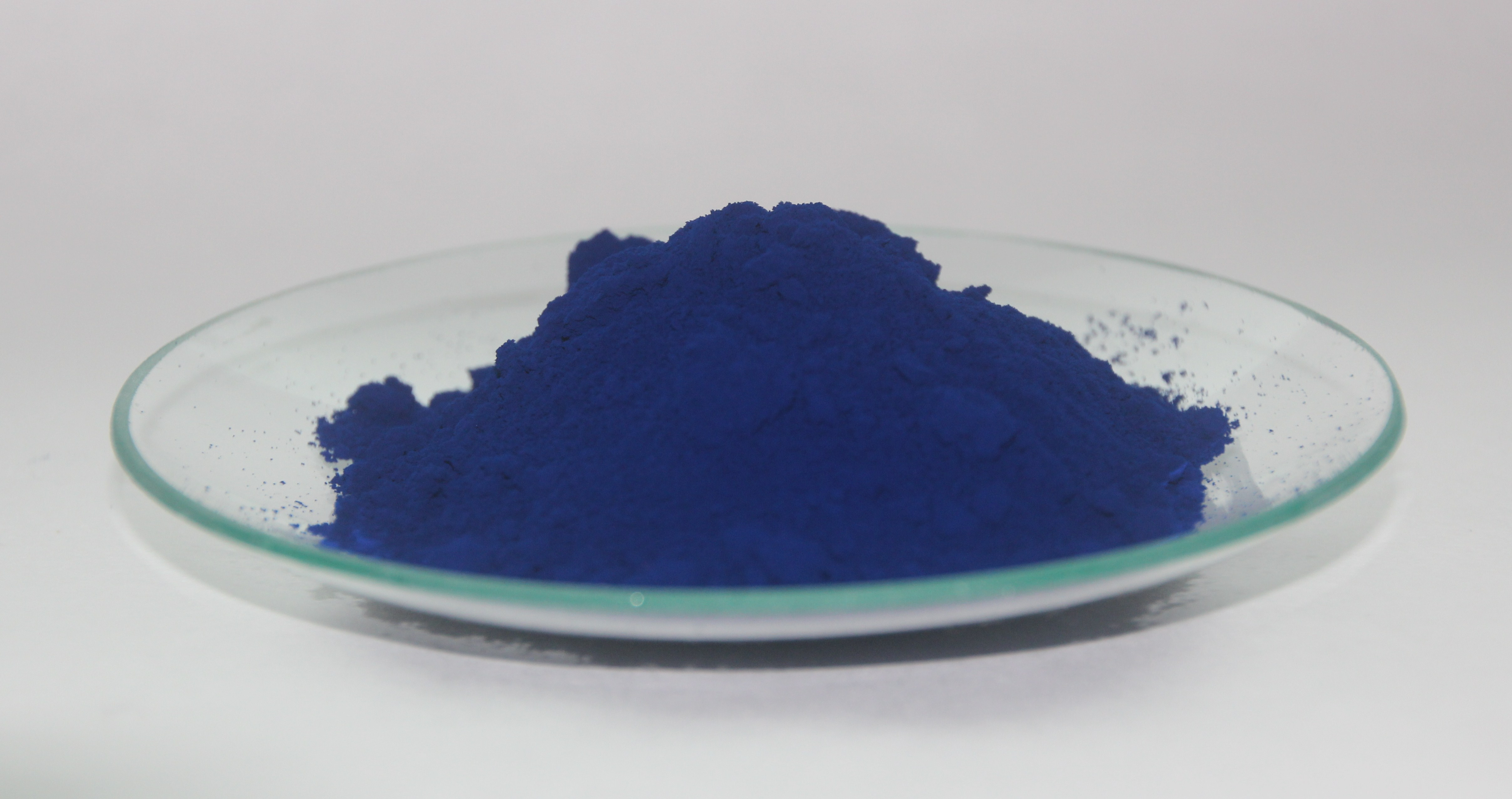 The Pigment Prussian Blue was invented in 1706 and named after the country in which the invention took place.